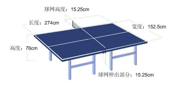 table tennis